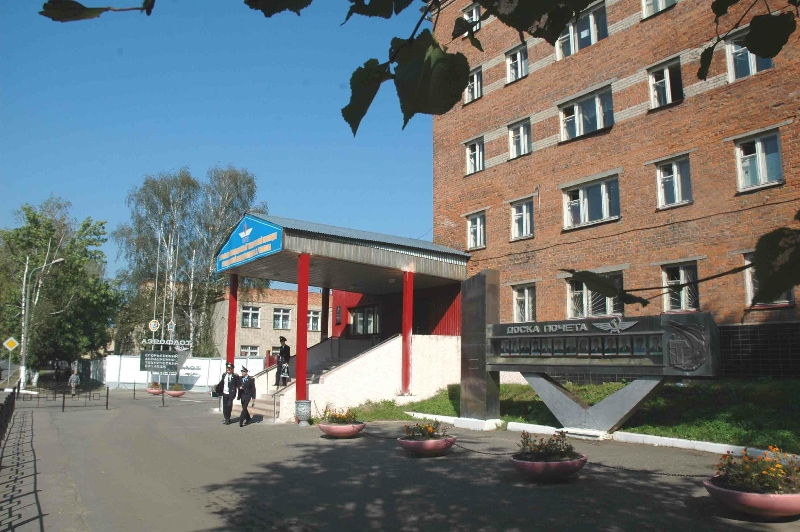 Egorievskay Technical College